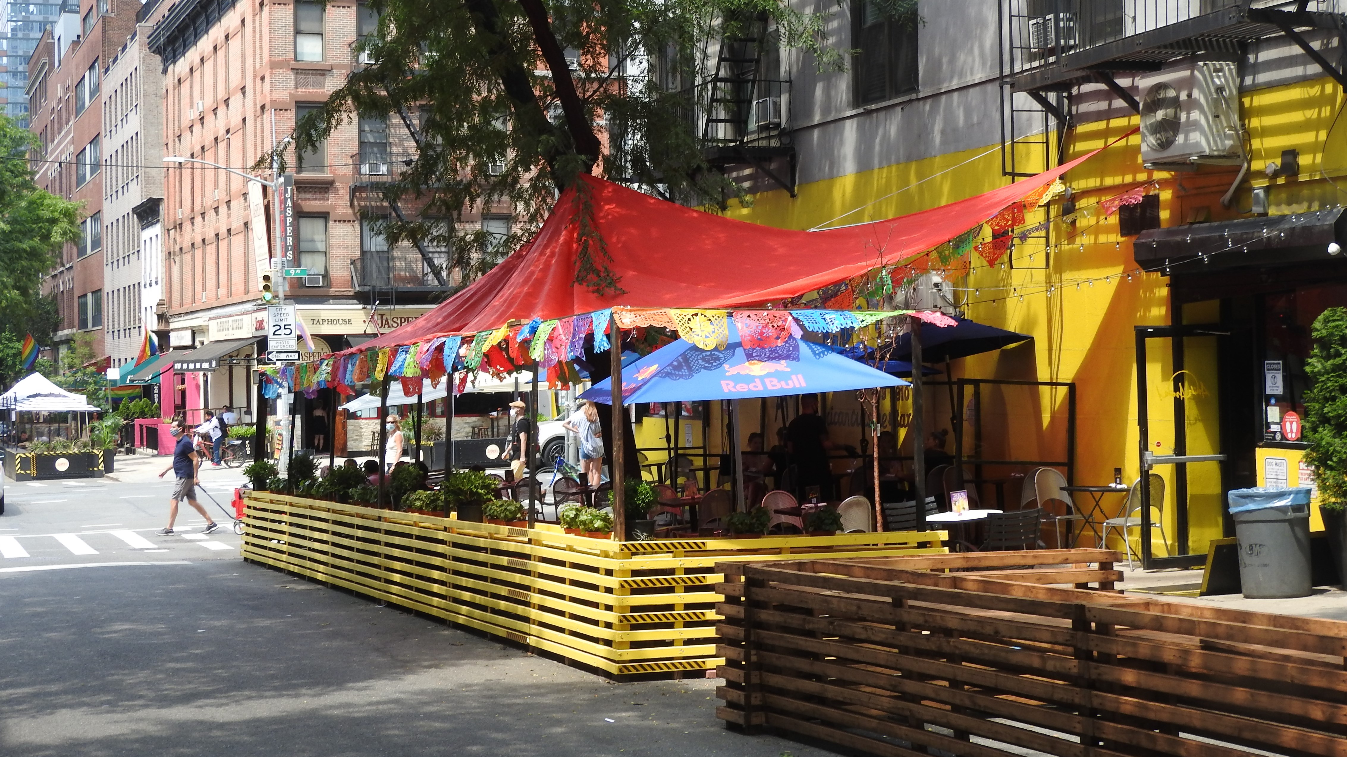 Looking northwest at restaurants in Manhattan whose dining rooms are closed due to pamdemic